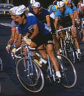 Franco Bitossi, 1974 World Championship Road Race, Montreal, Canada